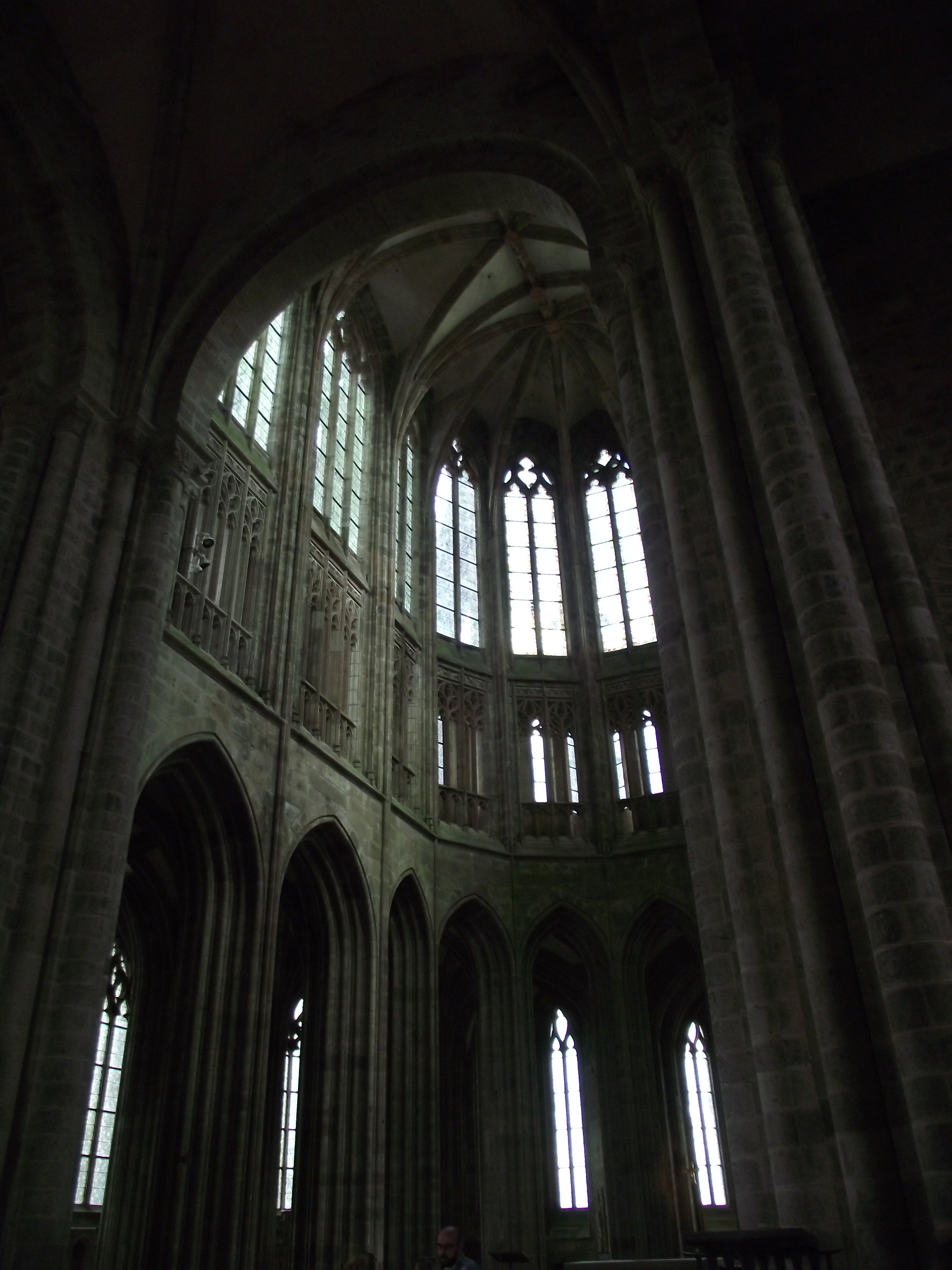 Abbey of Mont-Saint-Michel